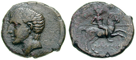 Magna Graecia: APULIA, Canusium (nowdays Canosa di Puglia). Circa 250-225 BC. Æ Obol (6.86 gm). Bare male head left KANYSINWN, nude (?) warrior on horseback right, holding long spear pointed forwards. SNG ANS 694; BMC Italy pg. 135, 4; SNG Copenhagen 643; SNG Morcom -; Laffaille -; Weber 448. see also Ancient greek coins